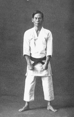 Shinpan Gusakuma